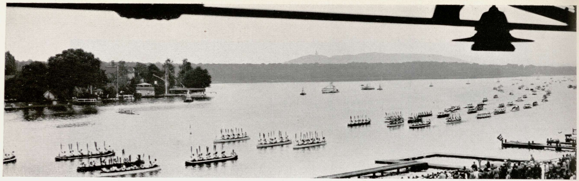 116 ten-seater Canadian canoes with young German sportsmen greet the Olympic guests on August 6th at the start of the Canoeing events of the 1936 Summer Olympics in Berlin